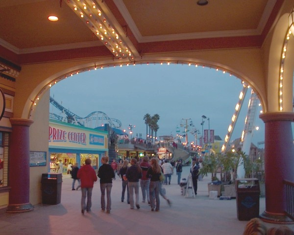 Santa Cruz Beach Boardwalk Santa Cruz Beach Boardwalk is located in Santa Cruz. It is a great place to spend your summer with your family and kids. It has great places to eat and fun rides.